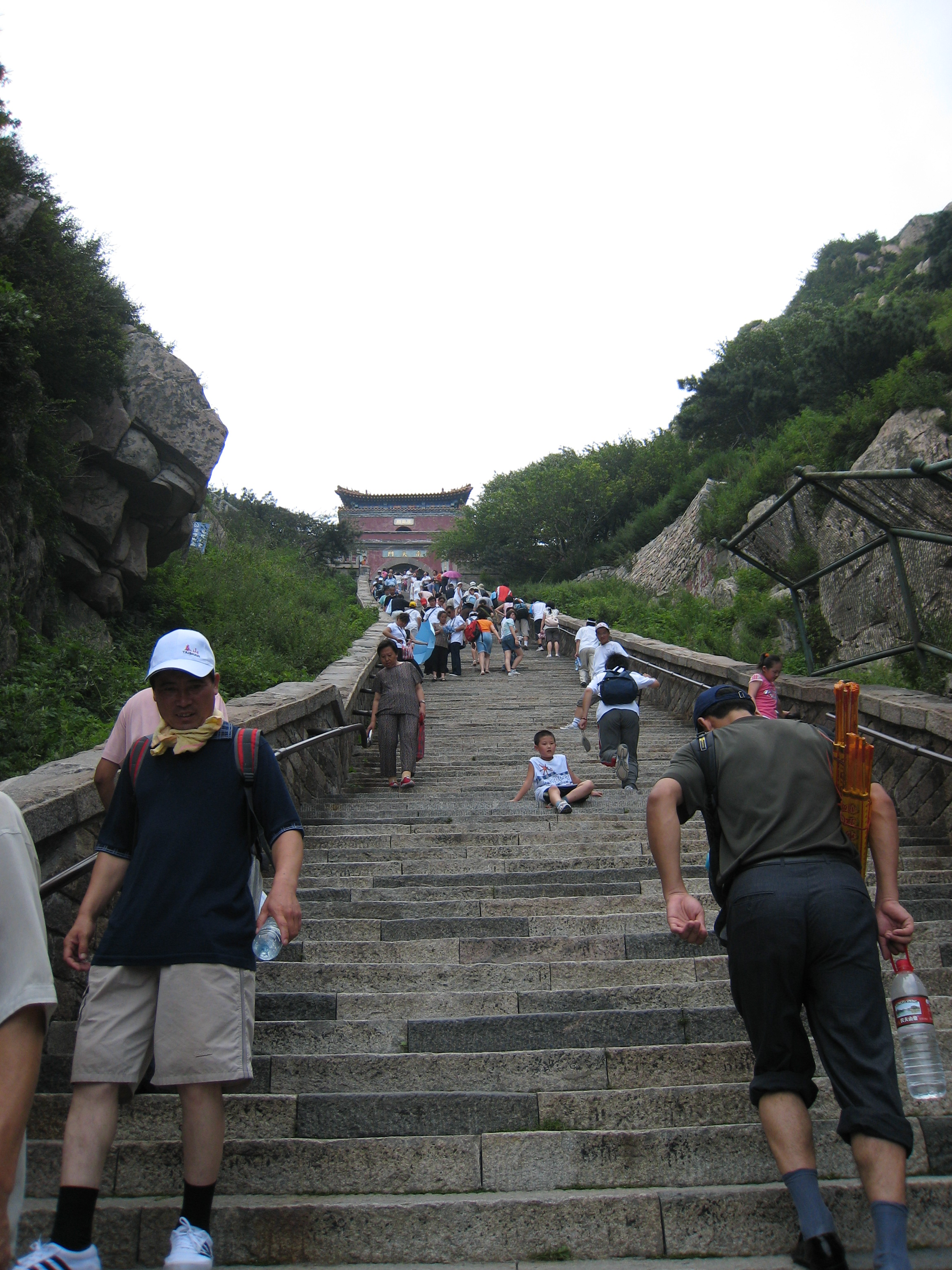 Main stone staircase on Mount Tai — Taishan National Park, Shandong Province.